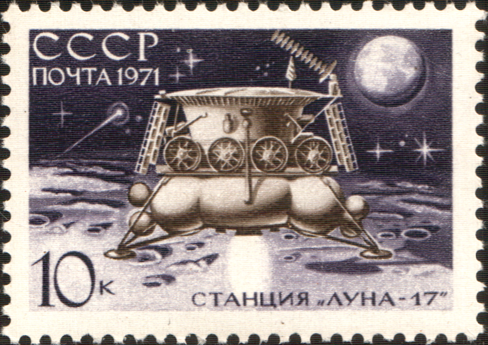 USSR stampː Luna 17 Module on Moon. Seriesː Soviet Luna 17 Spacecraft Carried Lunokhod 1 Rover to the Moon (1970.11.10-17)